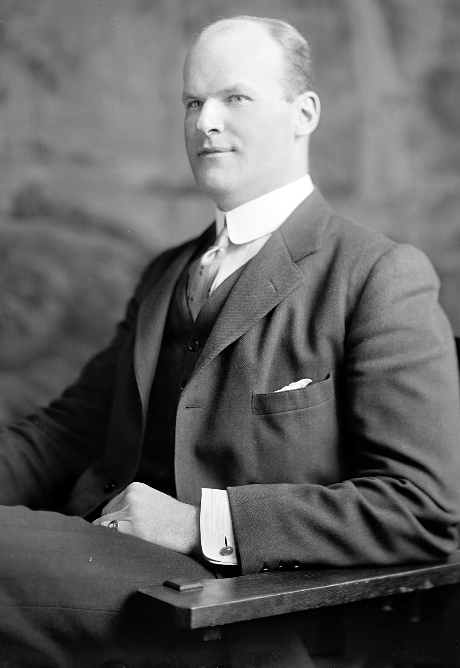 Theron Ephron Catlin, US Representative from Missouri